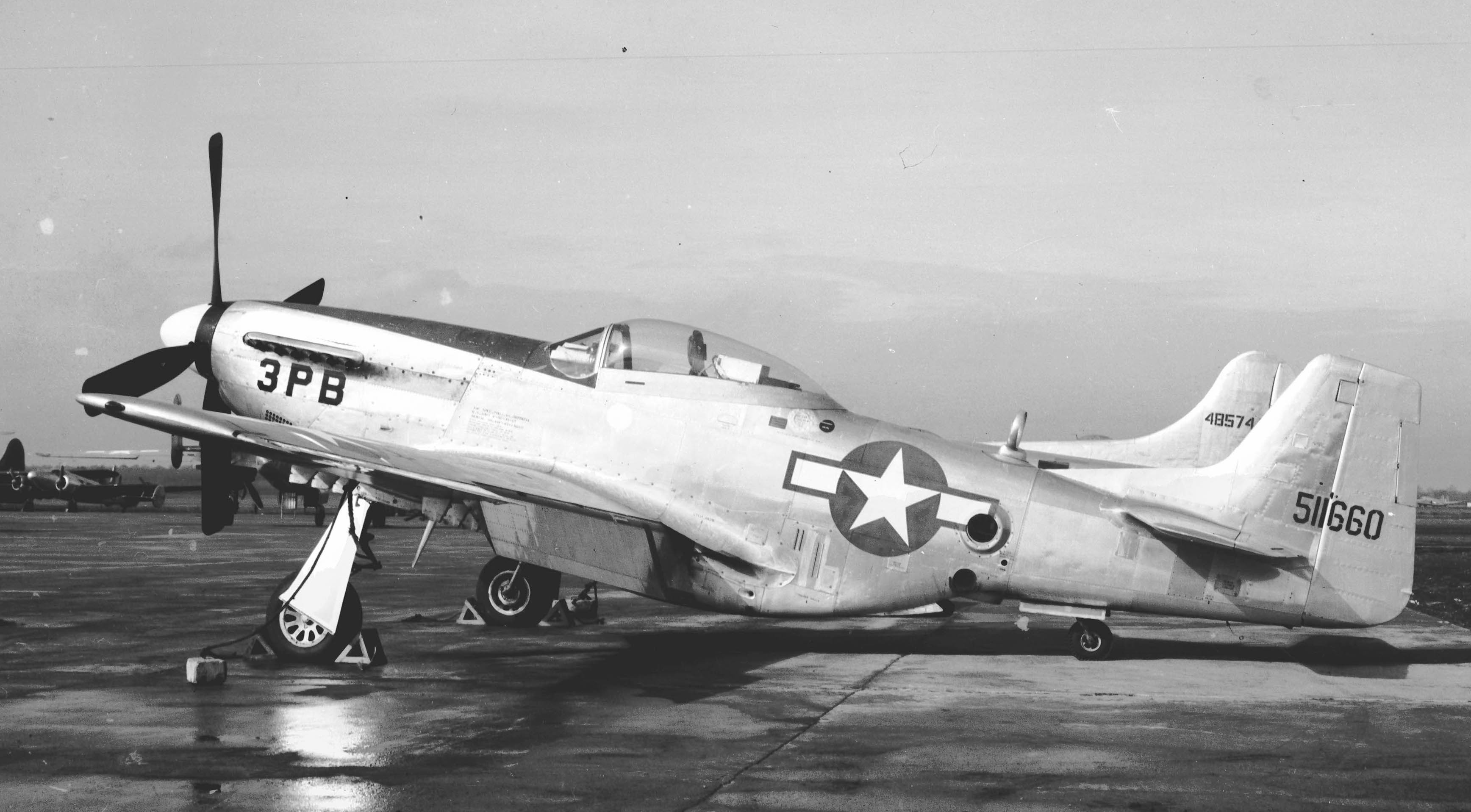 45-11660 at Patterson Field, November 1945.